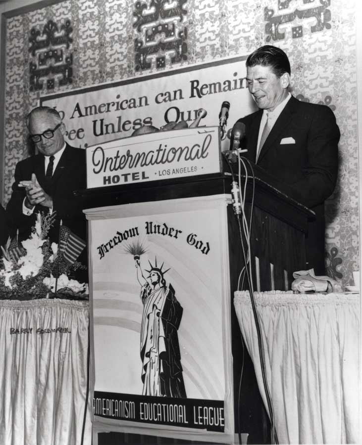 Ronald Reagan speaks for presidential candidate Barry Goldwater in Los Angeles in 1964